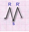 possible configuration of Right bundle branch block in lead V1